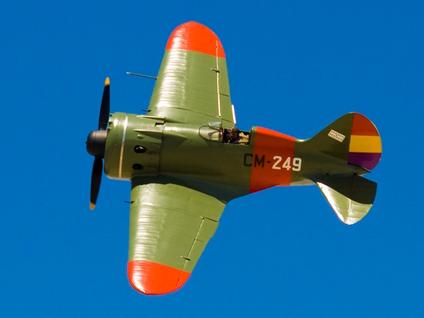 Polikarpov I-16 in the colors of Republican Spain. Canon EOS 400D + Sigma 70-300 @ 86mm f/8 1/500s ISO 100